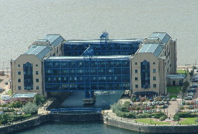 View from the top of the Anglican Cathedral Tower, Liverpool. The new Customs & Excise Building